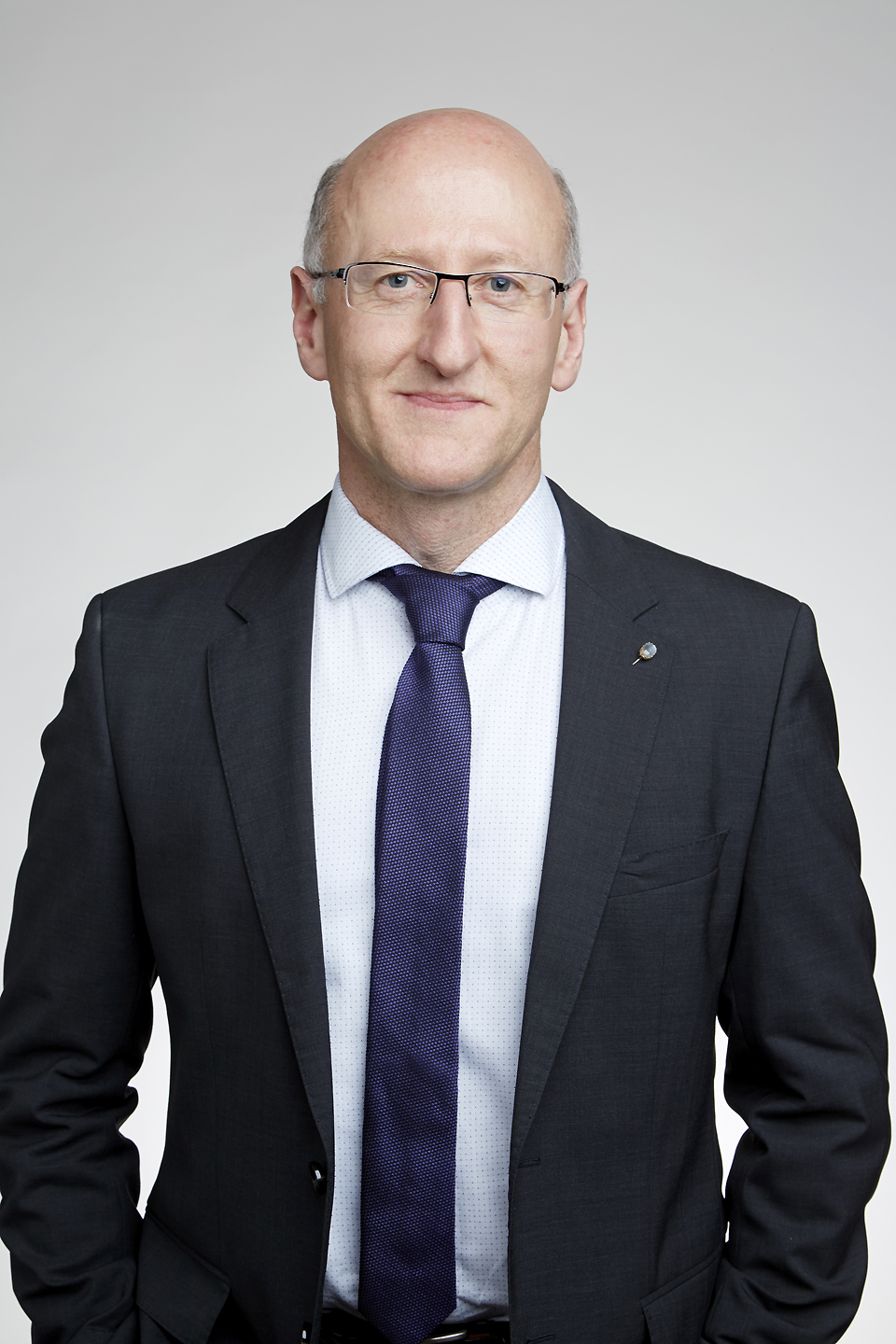 Jonathon Noe Joseph Pines FMedSci FRS is Head of the Cancer Biology Division at the Institute of Cancer Research in London. He was formerly a senior group leader at the Gurdon Institute at the University of Cambridge Attribution: The Royal Society